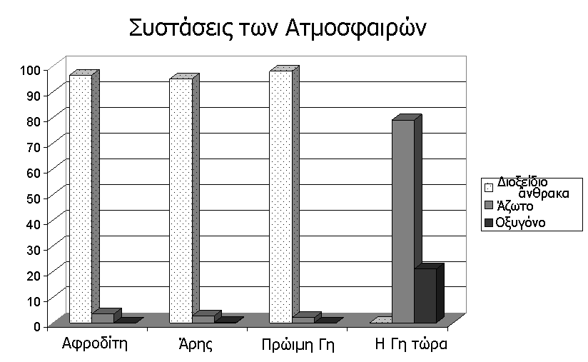 Translation of File:Atmosphere composition.gif to Greek